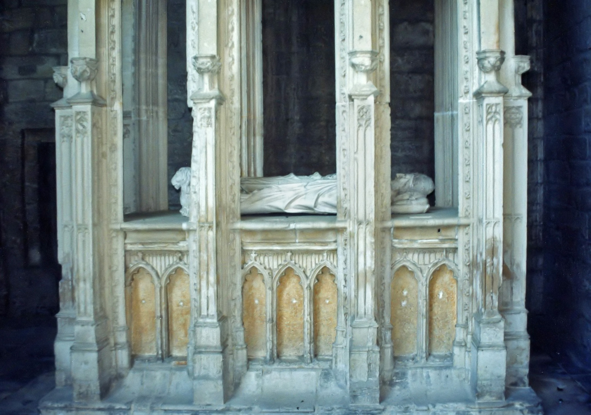 Tomb of Pope Innocent VI, Villeneuve-lès-Avignon, Gard département, France